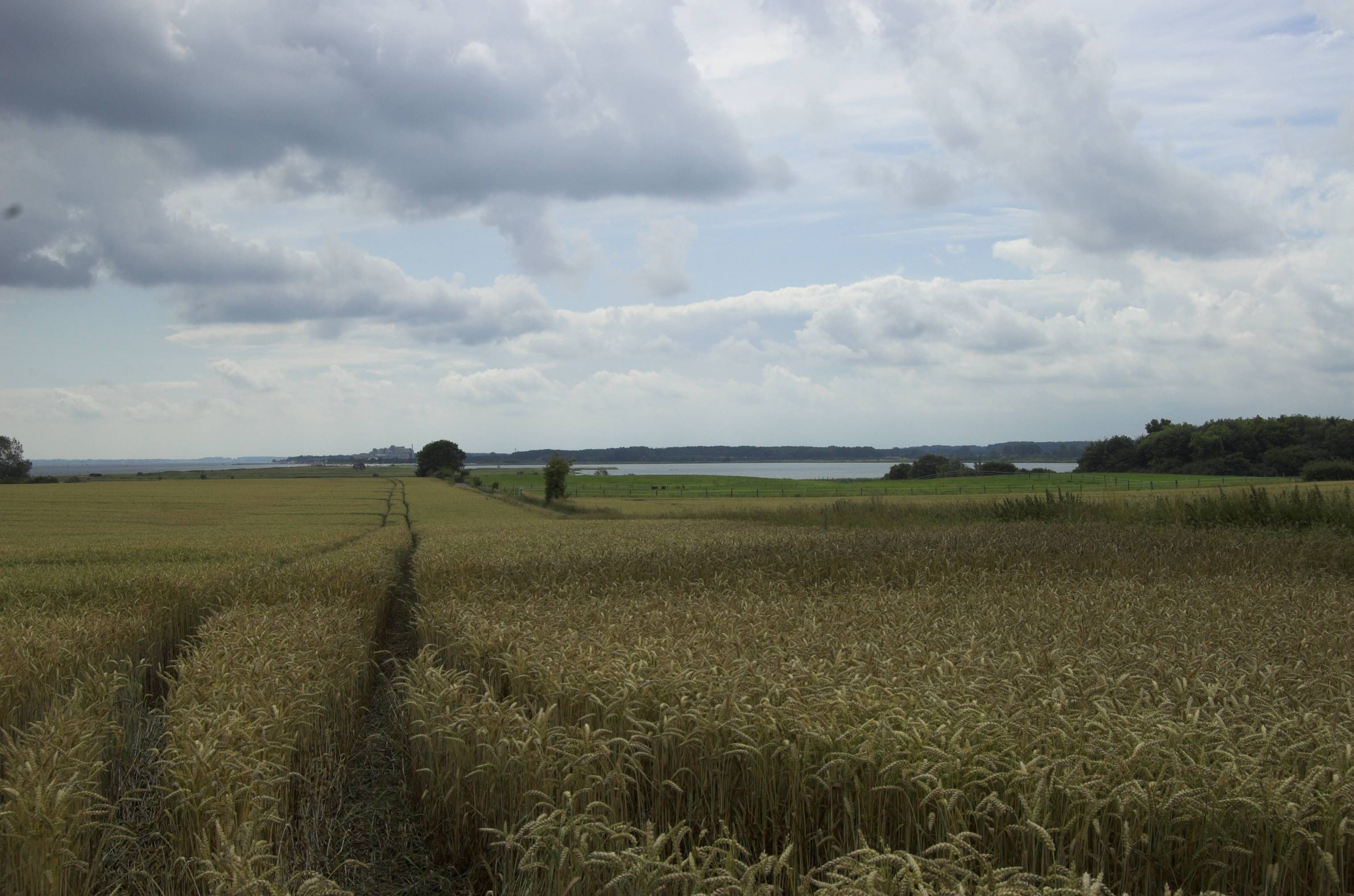 Field and Schwansener See from north, with the Baltic Sea left and the village Damp in the background